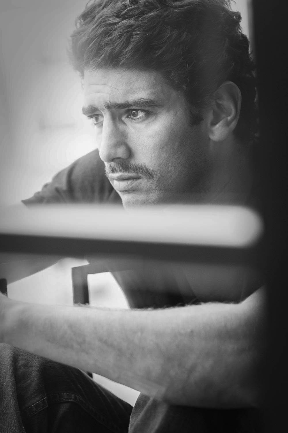 Salim Kechiouche photographed by Vincent Pesci in January 2014